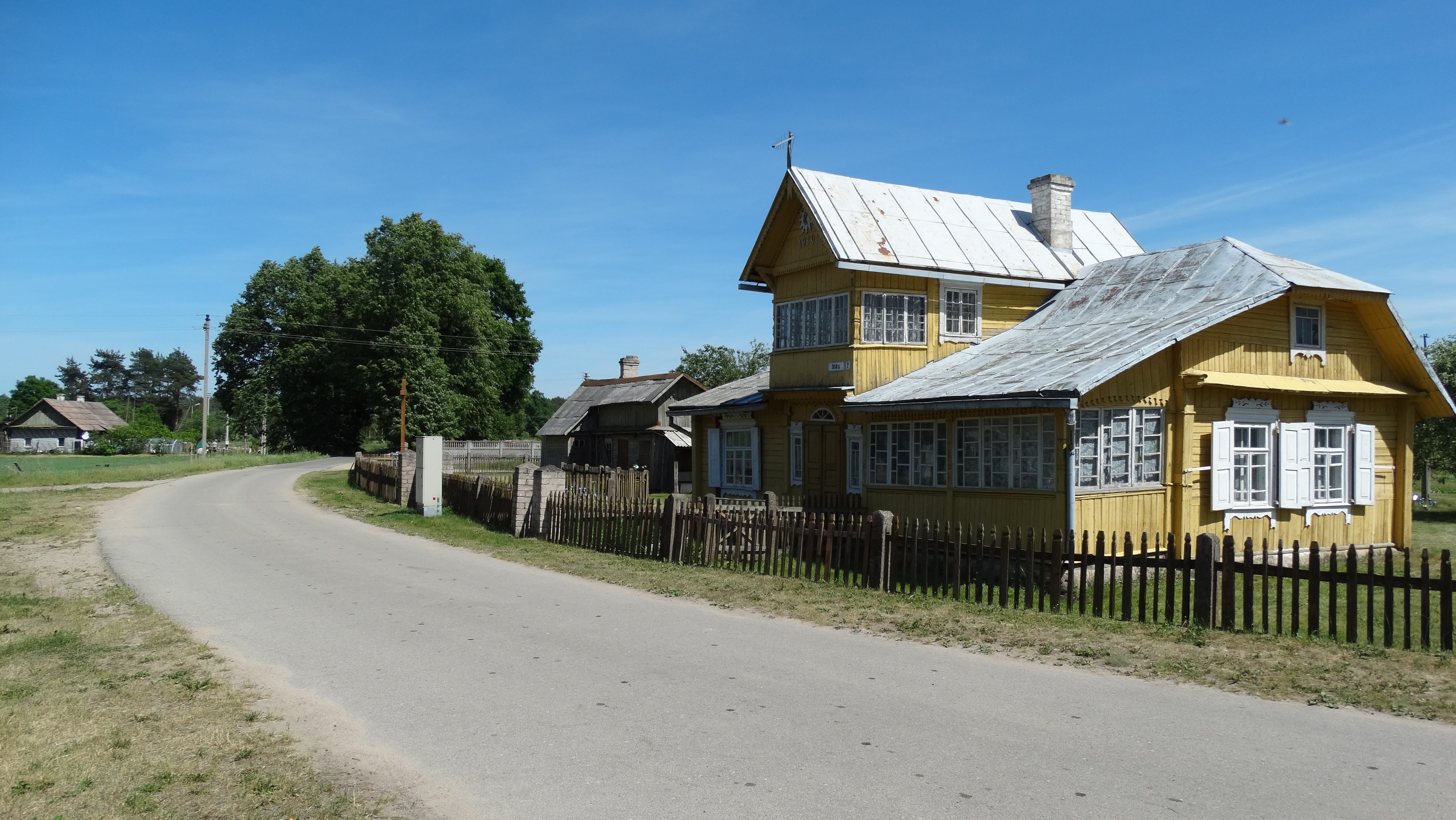 Buivydžiai, Vilnius District, Lithuania